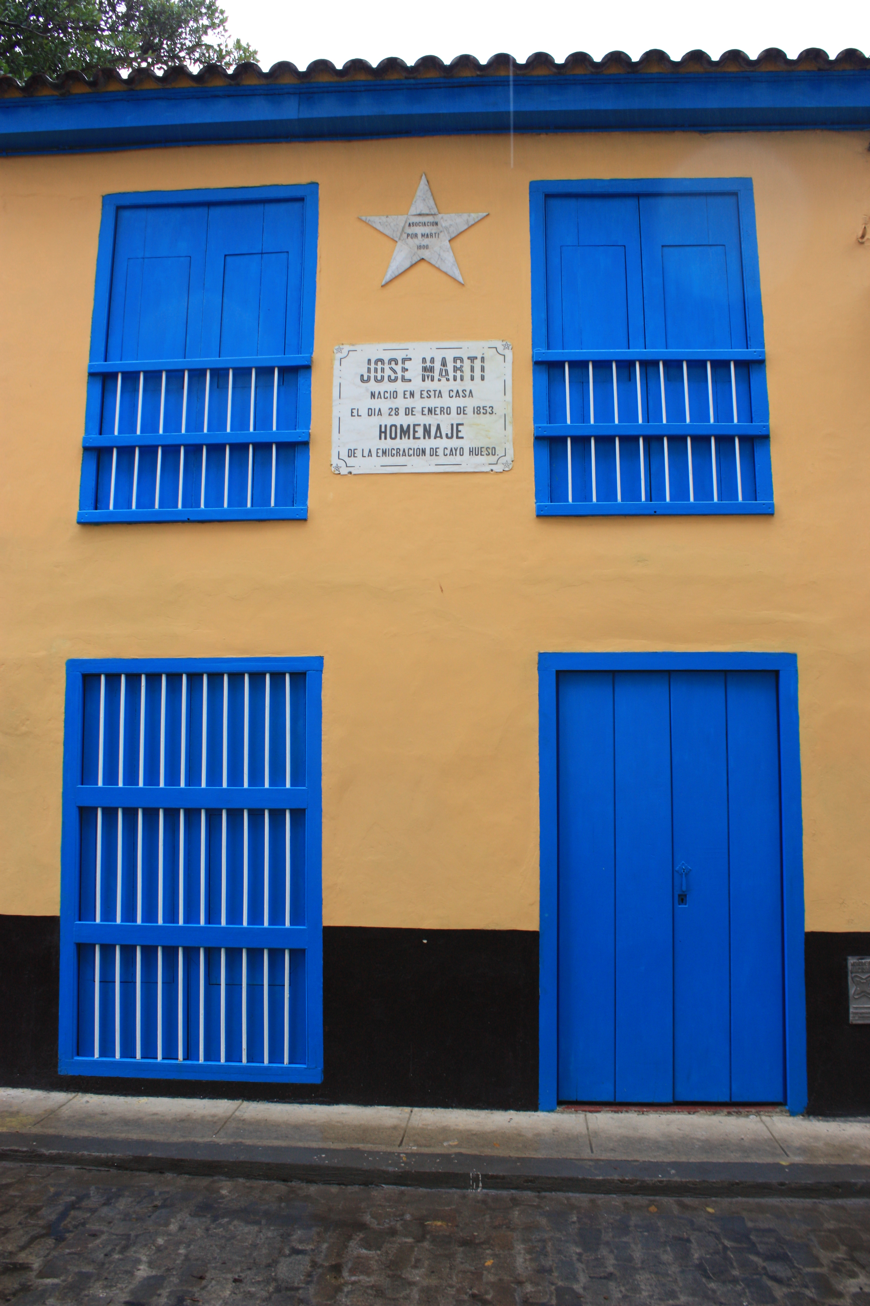 Jose Marti's birthplace, Havana, Cuba